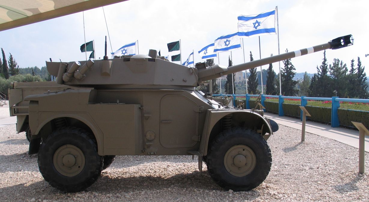 Description: Panhard AML 90 armored car in Yad la-Shiryon Museum, Israel. Source: Photo by me, User:Bukvoed.